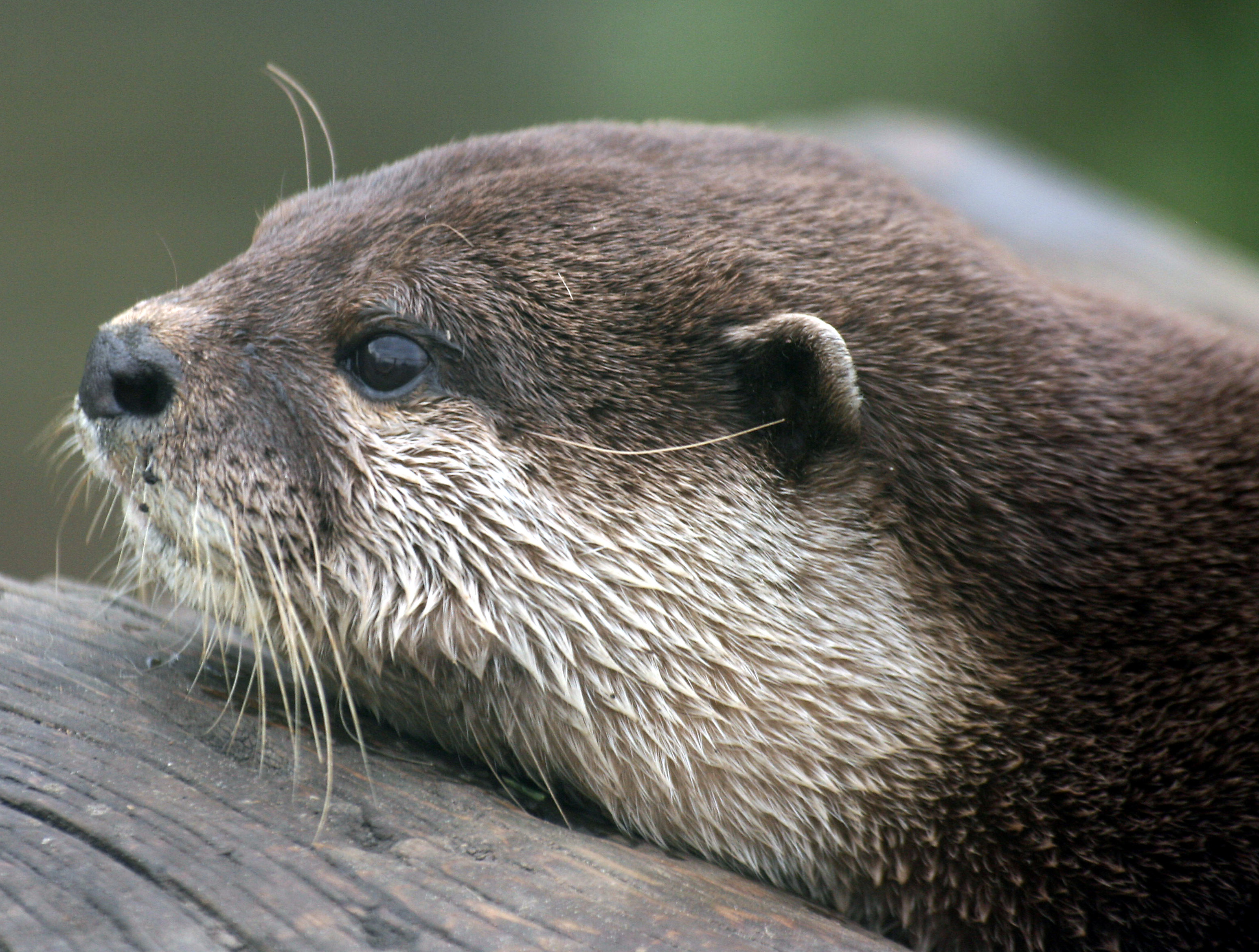 Otter - Eagle Heights Wildlife Park - Sunday February 24th 2008.